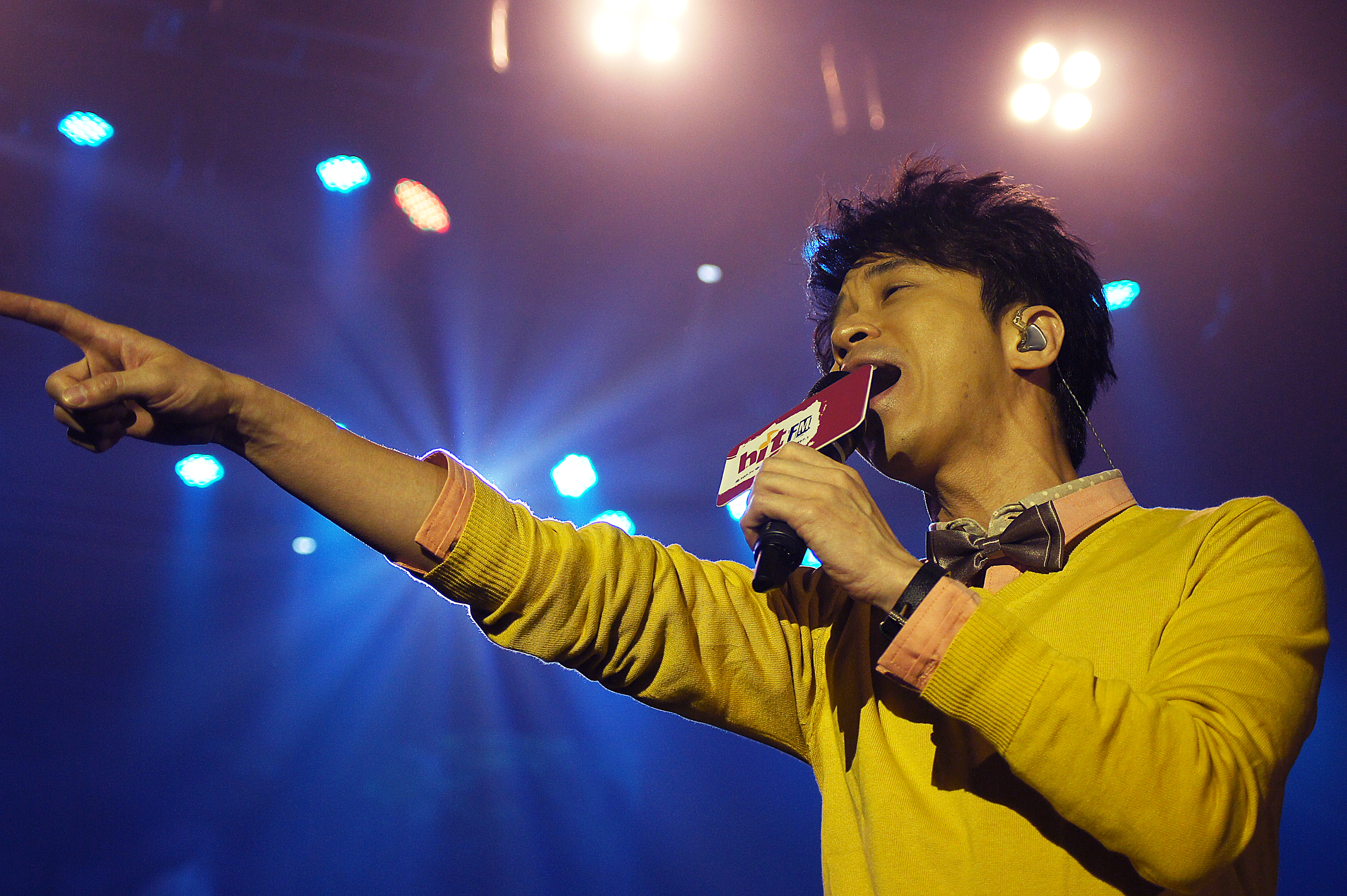 中文（香港）: 光良(Michael Wong)在Hit FM《這夏樂翻了》Summer Party演出。